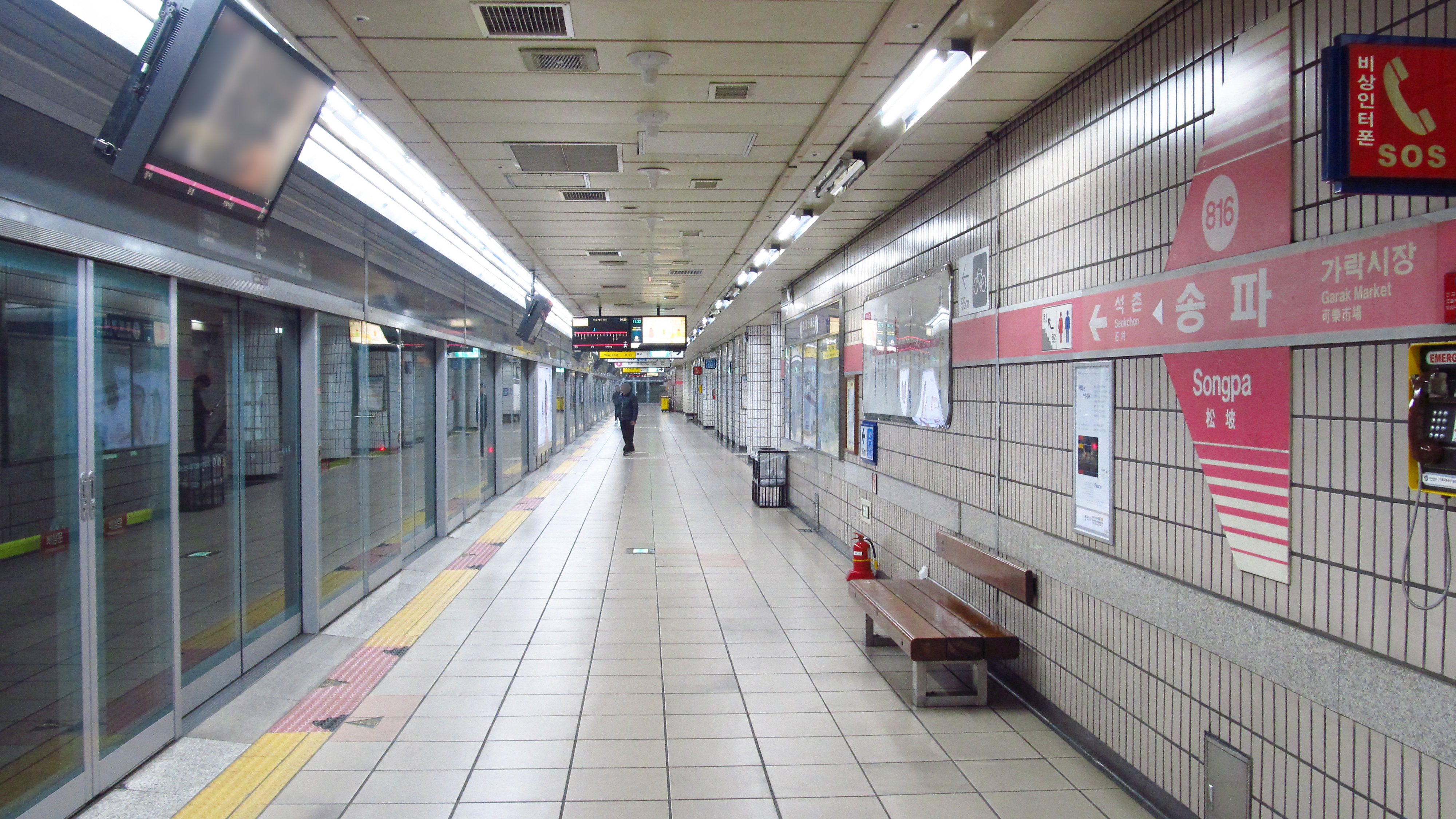 The platform at Songpa Station on Seoul Subway Line 8 in Songpa-gu, Seoul, Republic of Korea(South Korea)